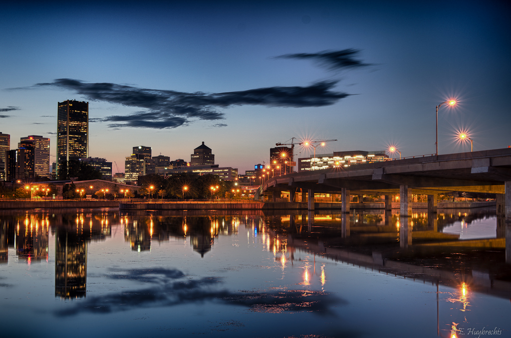 On the right is the Autoroute Bonaventure. bird shaped cloud. Sur la droite, c'est l'autoroute 10 (Bonaventure).